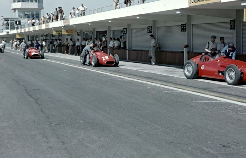 The Maseratis of Juan Manuel Fangio (#2) and Luigi Piotti (#28). Photo by Carlos Alberto Navarro.